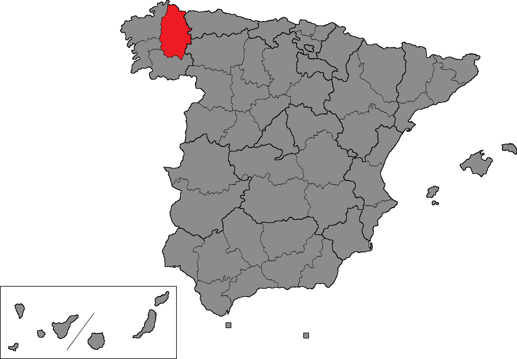 Spanish Congress of Deputies district of Lugo.